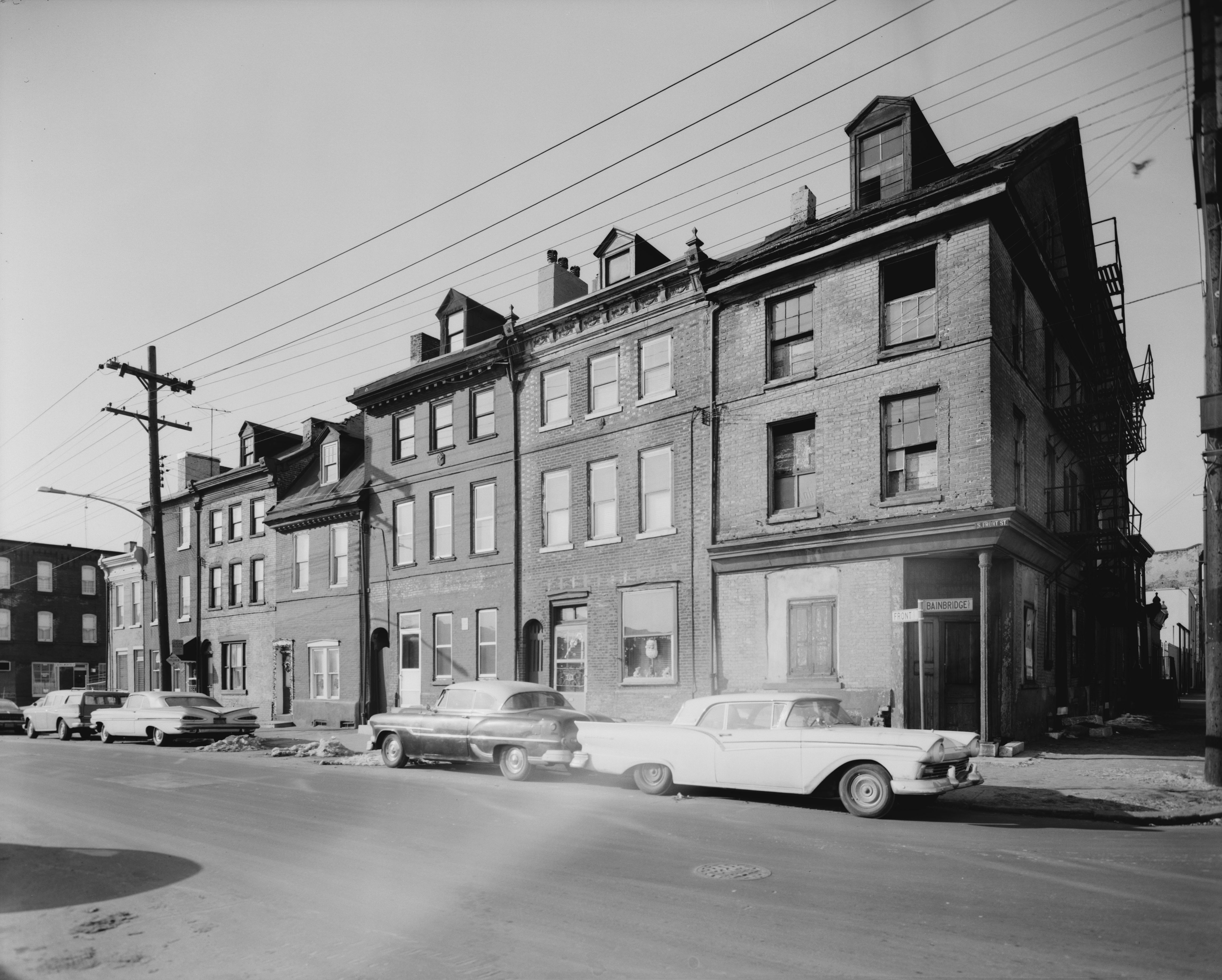 700 block of Front Street in Philadelphia, looking south. Cross street is Bainbridge. The block and 2 of the houses (702, 704) are listed separately on the NRHP. South Front Street Historic District on the NRHP since April 25, 1972. 700–712 South Front Street, western side of Bainbridge Street to Kenilworth Street in Queen Village neighborhood of South Philly. One of the oldest remaining blocks in Philly, along the Delaware River.